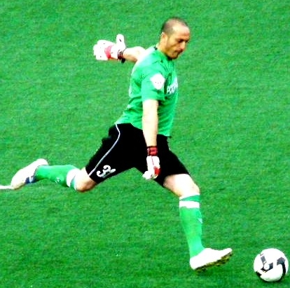 Eduardo Lobos in action for FC Krylya Sovetov Samara